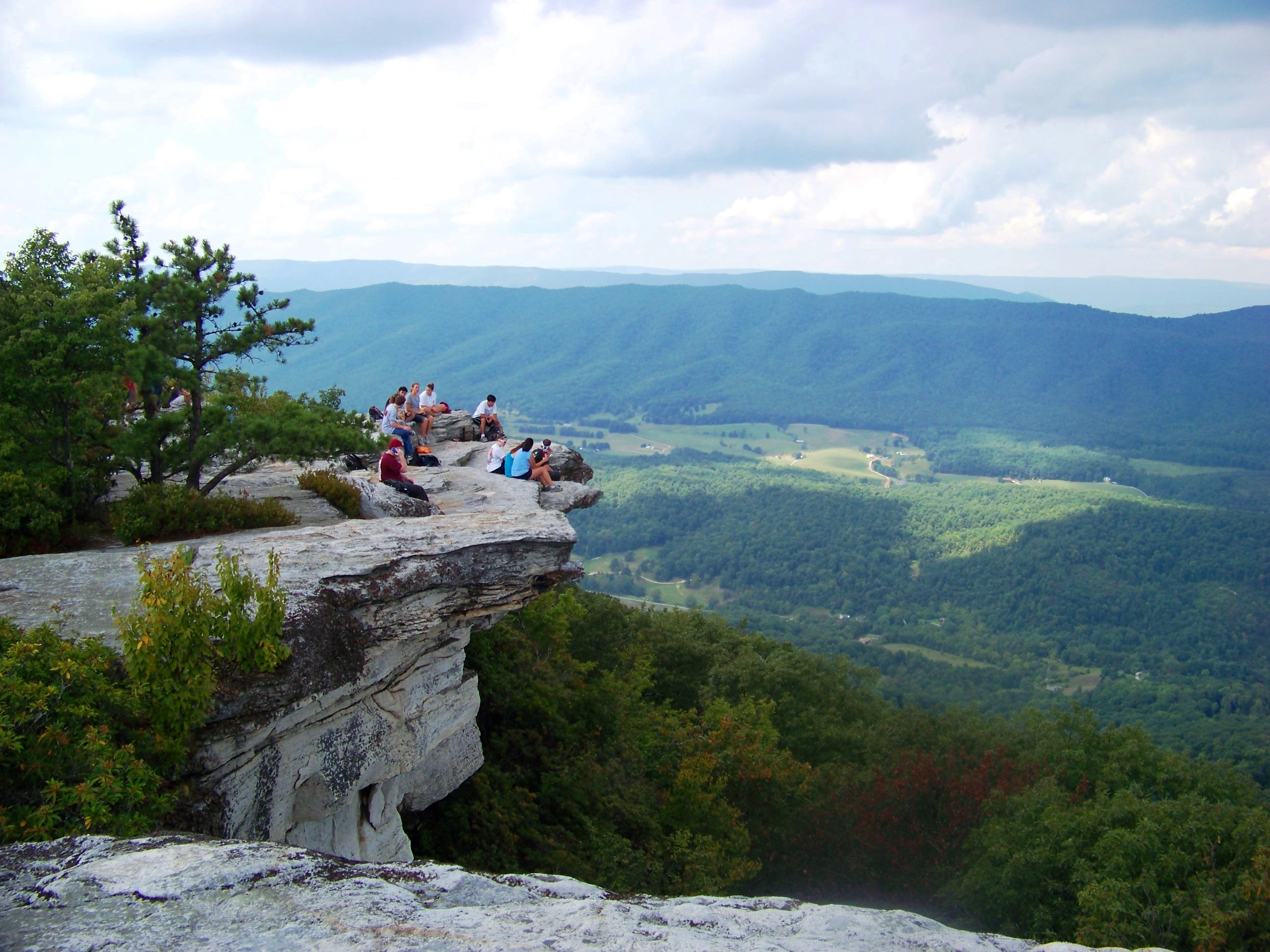 McAfee's Knob